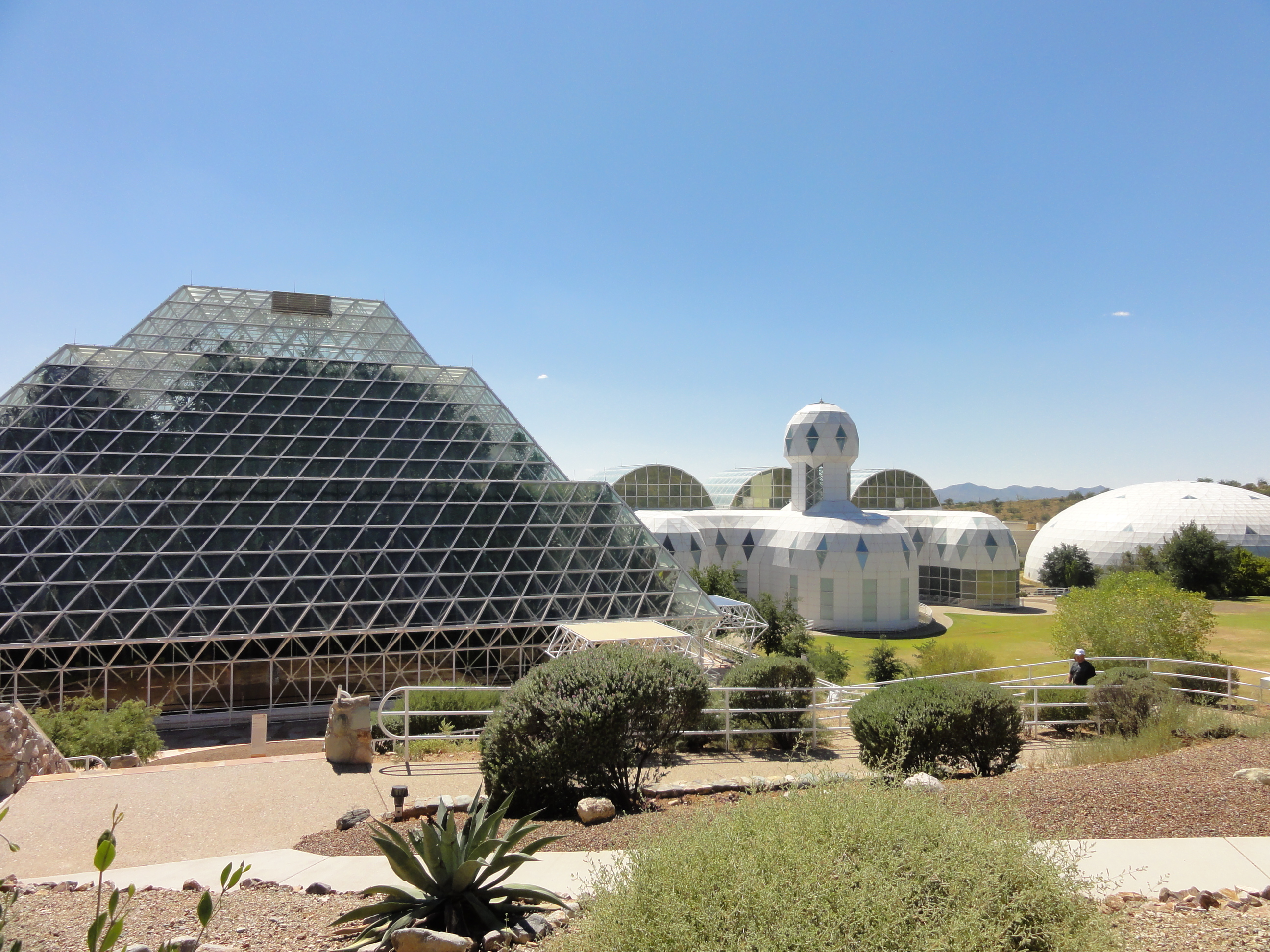 Biosphere2 From the left; Biosphere2's Rainforest (greenhouse), Habitat (former crew quarter with a tower), West Lung (volume buffer dome used for diurnal temperature atmospheric regulation to prevent structural damage) Looking south.